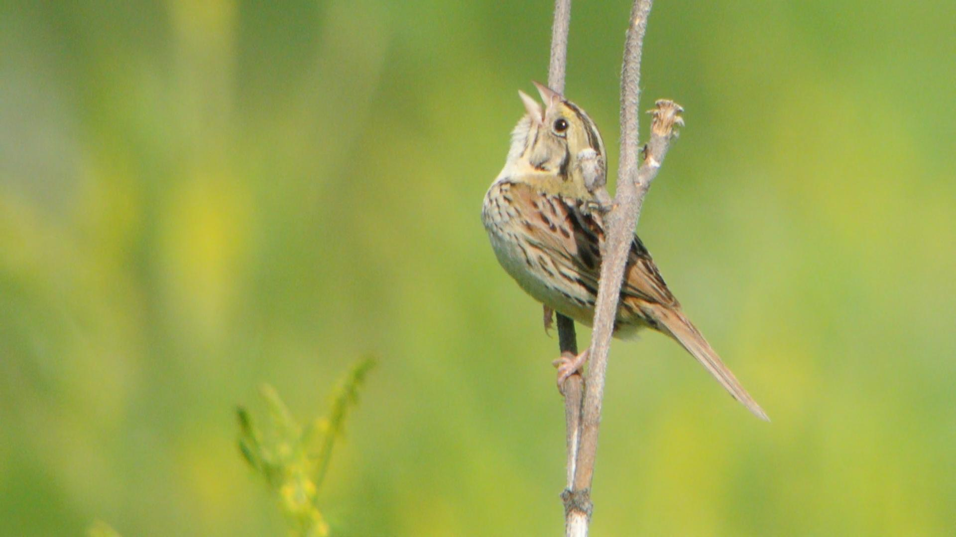 6/8/13 at Mount Doom